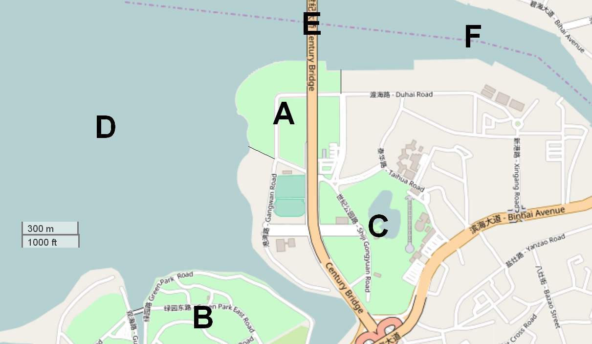 2013 map of Century Park (Haikou) This map of Haikou, China was created from OpenStreetMap project data, collected by the community. This map may be incomplete, and may contain errors. Don't rely solely on it for navigation.